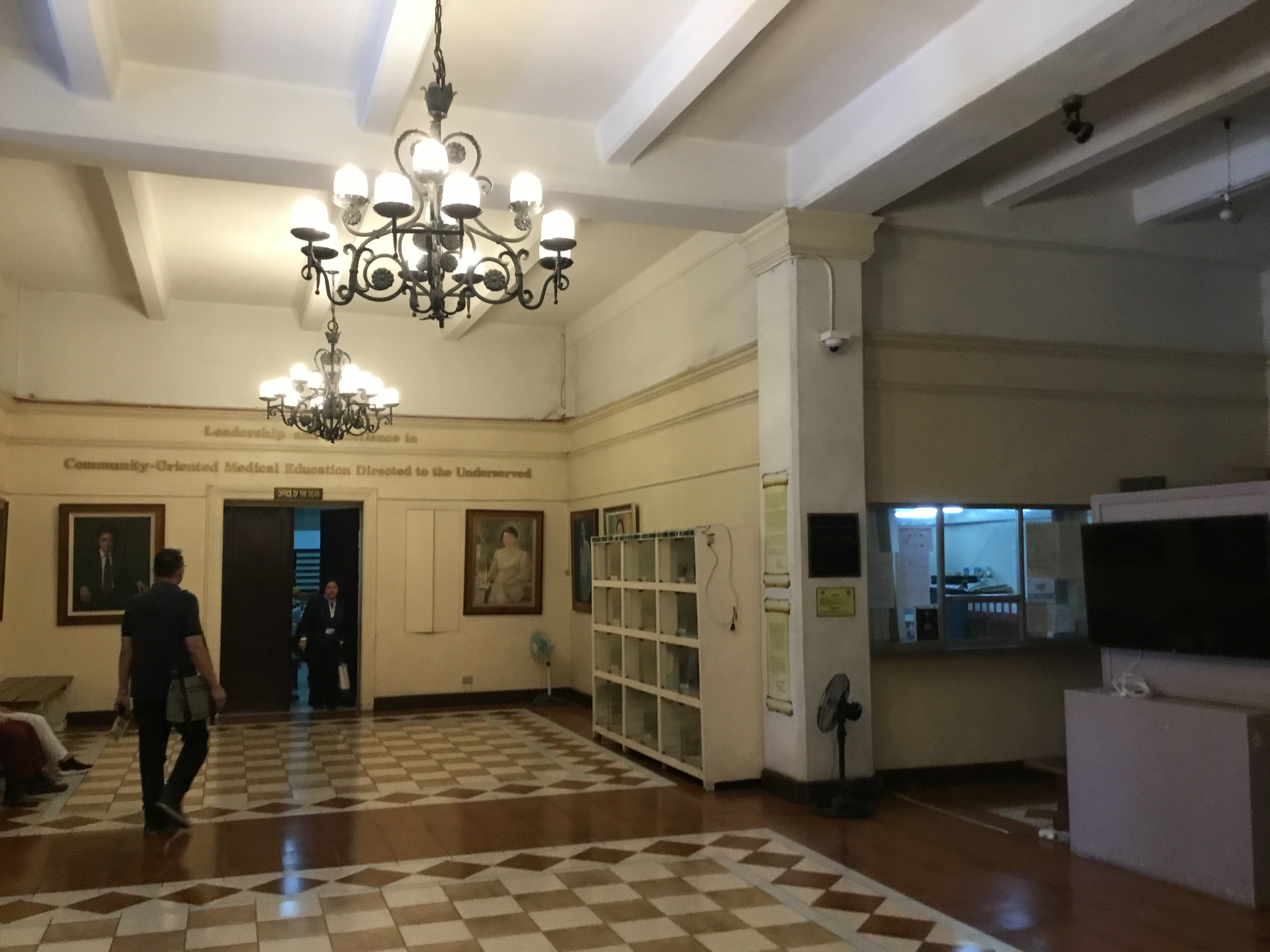 UP Manila Calderon Hall lobby